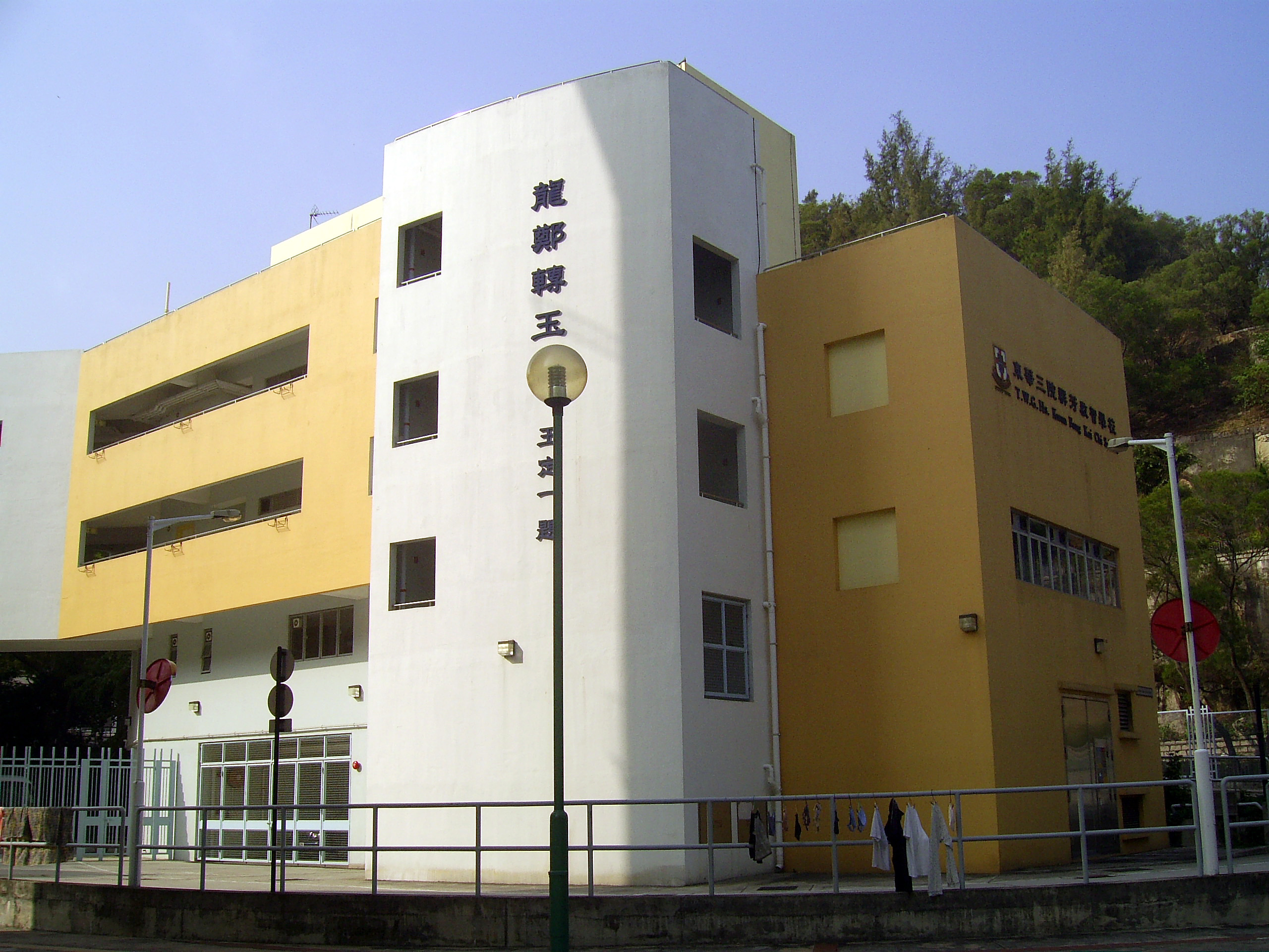 Tung Wah Group of Hospitals Kwan Fong Kai Chi School